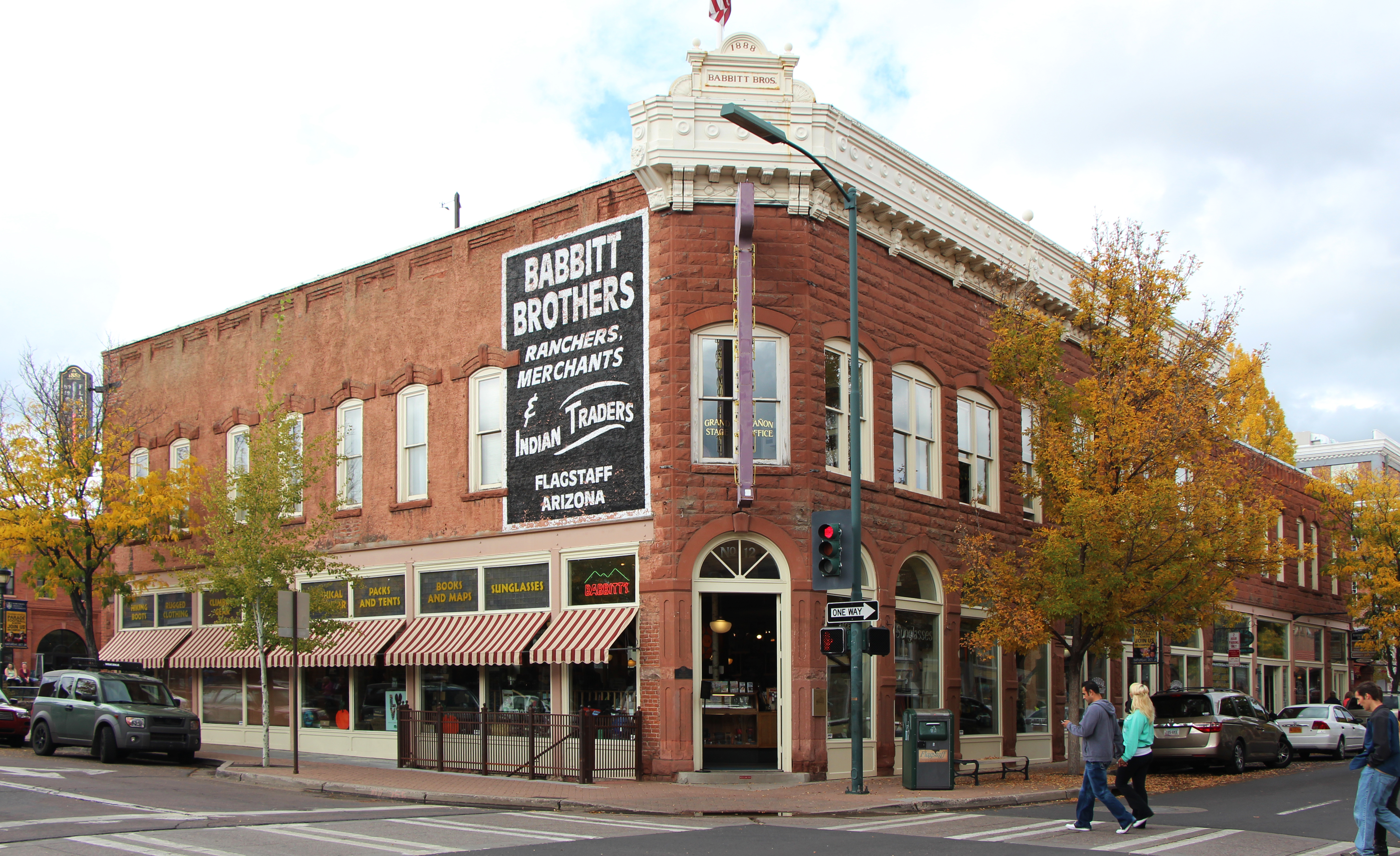 Babbitt Brothers Building, 73 E Aspen Ave, Flagstaff, AZ